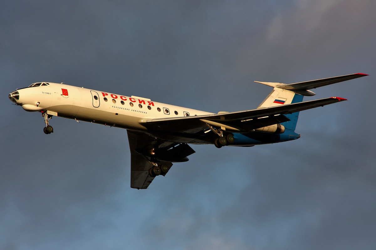 Autumn skies and the evening glow...